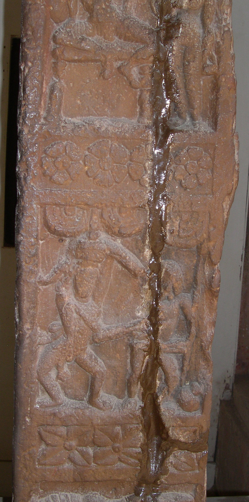 Detail of hero-stone showing exploits of the ruler Nagavarman.